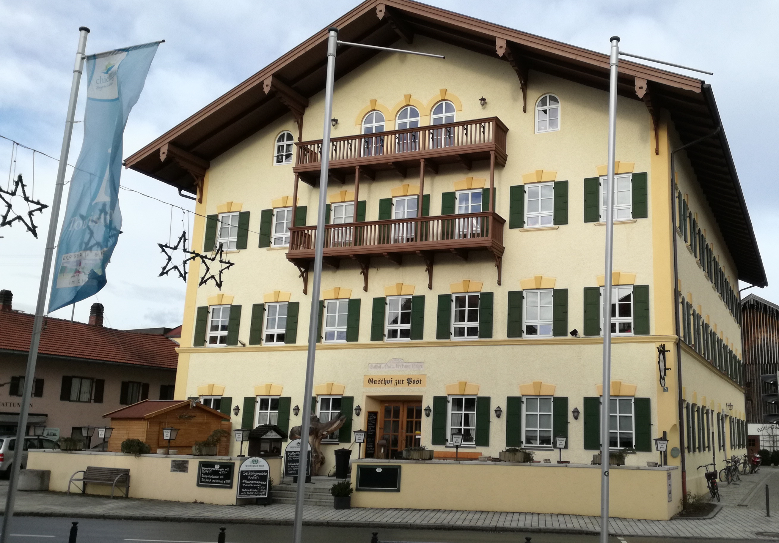 Gasthof zur Post in Grassau